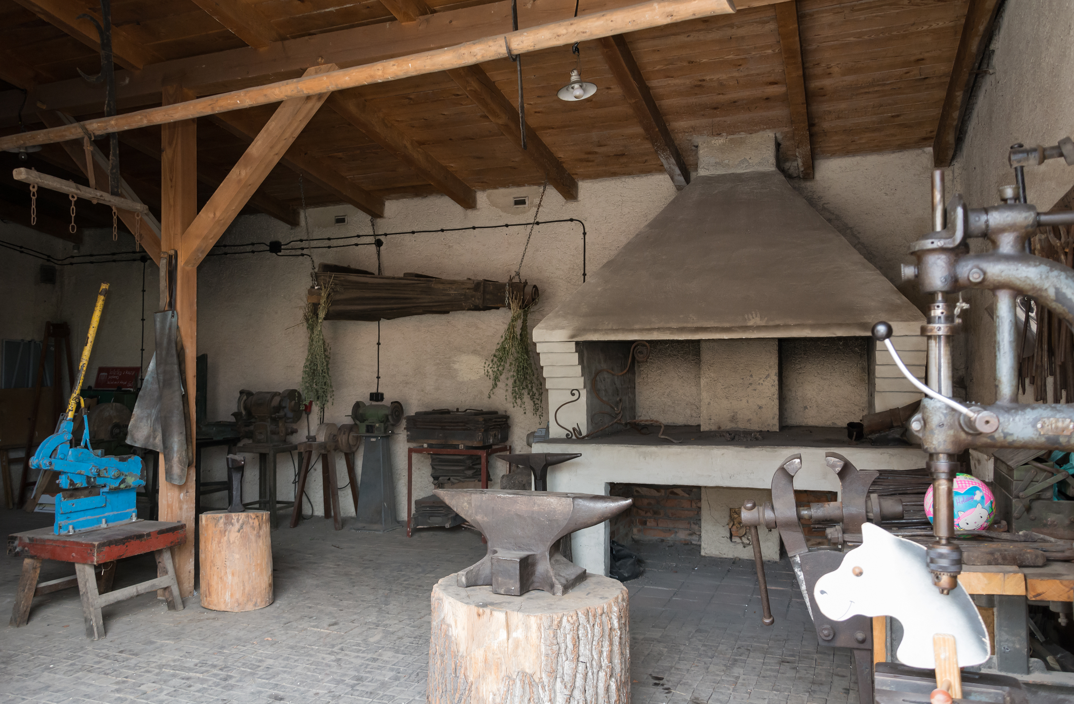 Forge in Łomnica